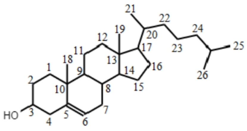 Numeració dels carbonis del colesterol